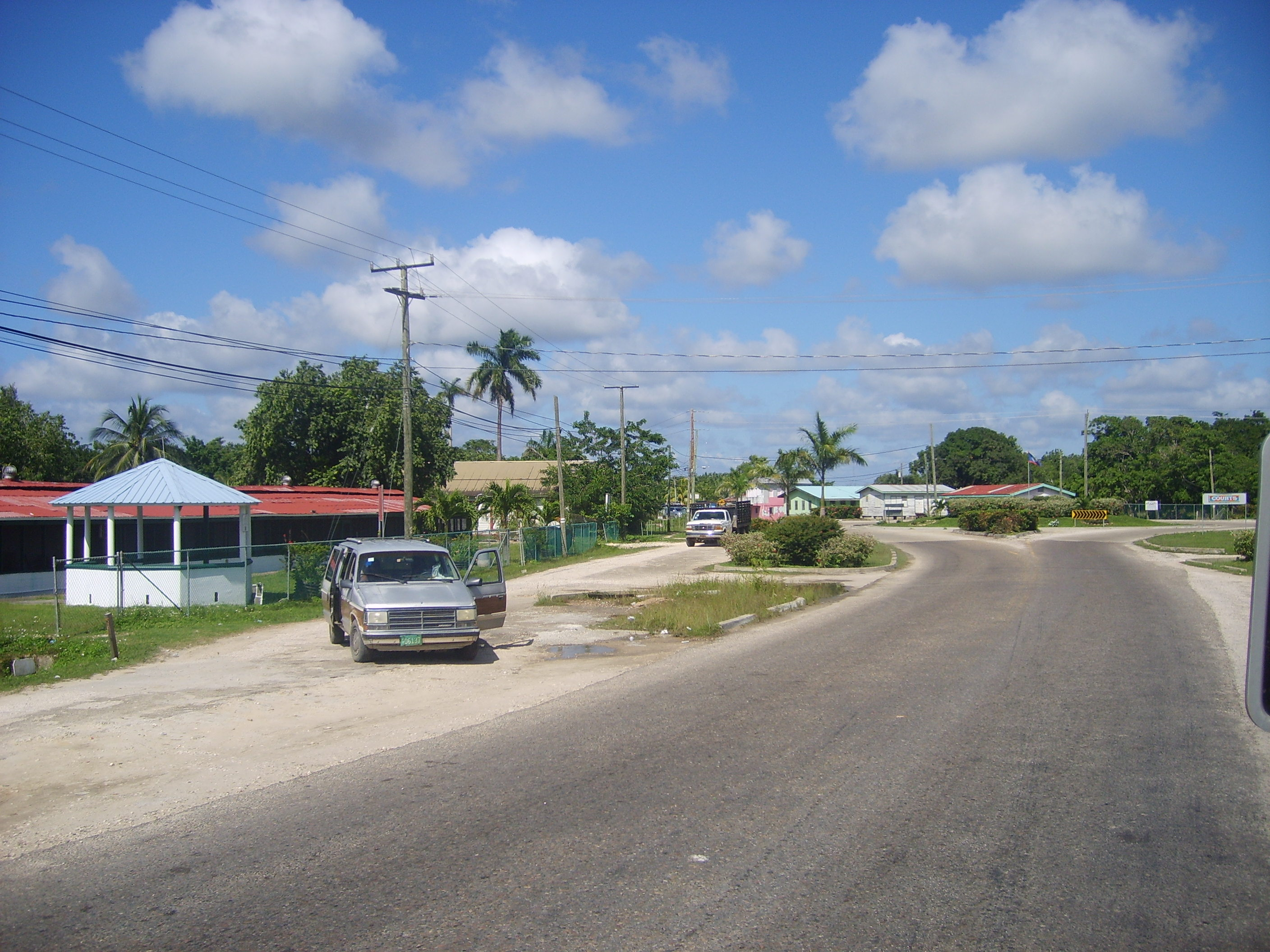 Center of Hattieville city in Belize